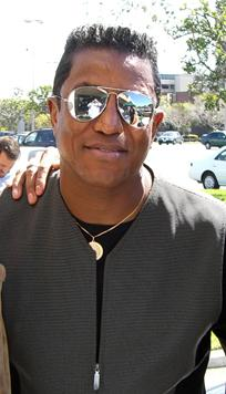 Former member of the Jackson 5 and brother of Michael Jackson, Jermaine Jackson